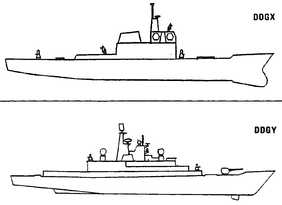 Drawing of the proposed U.S. Navy New-Design Battle Group Destroyer (DDGX) and Open Ocean Destroyer (DDGY).